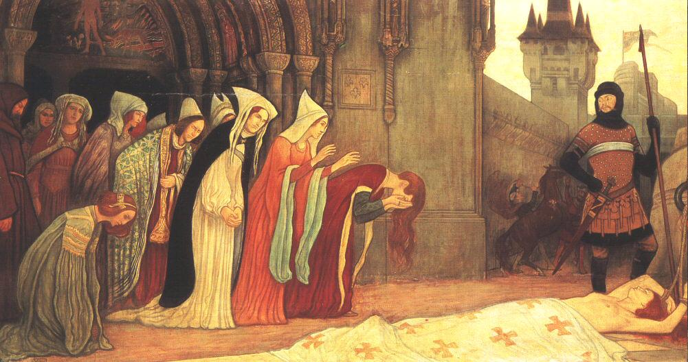 Historia Klary Zach II